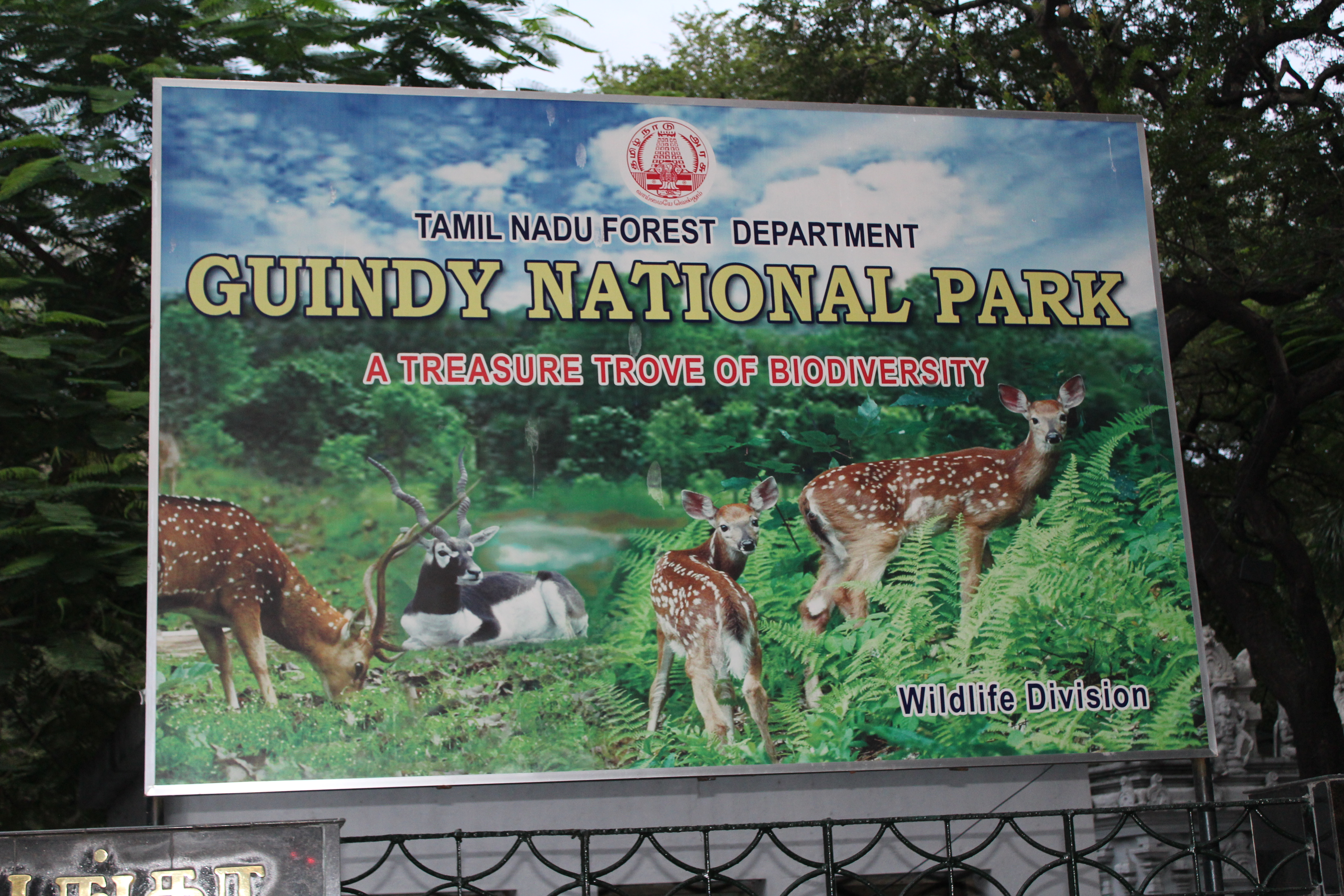 Guindy National Park Board